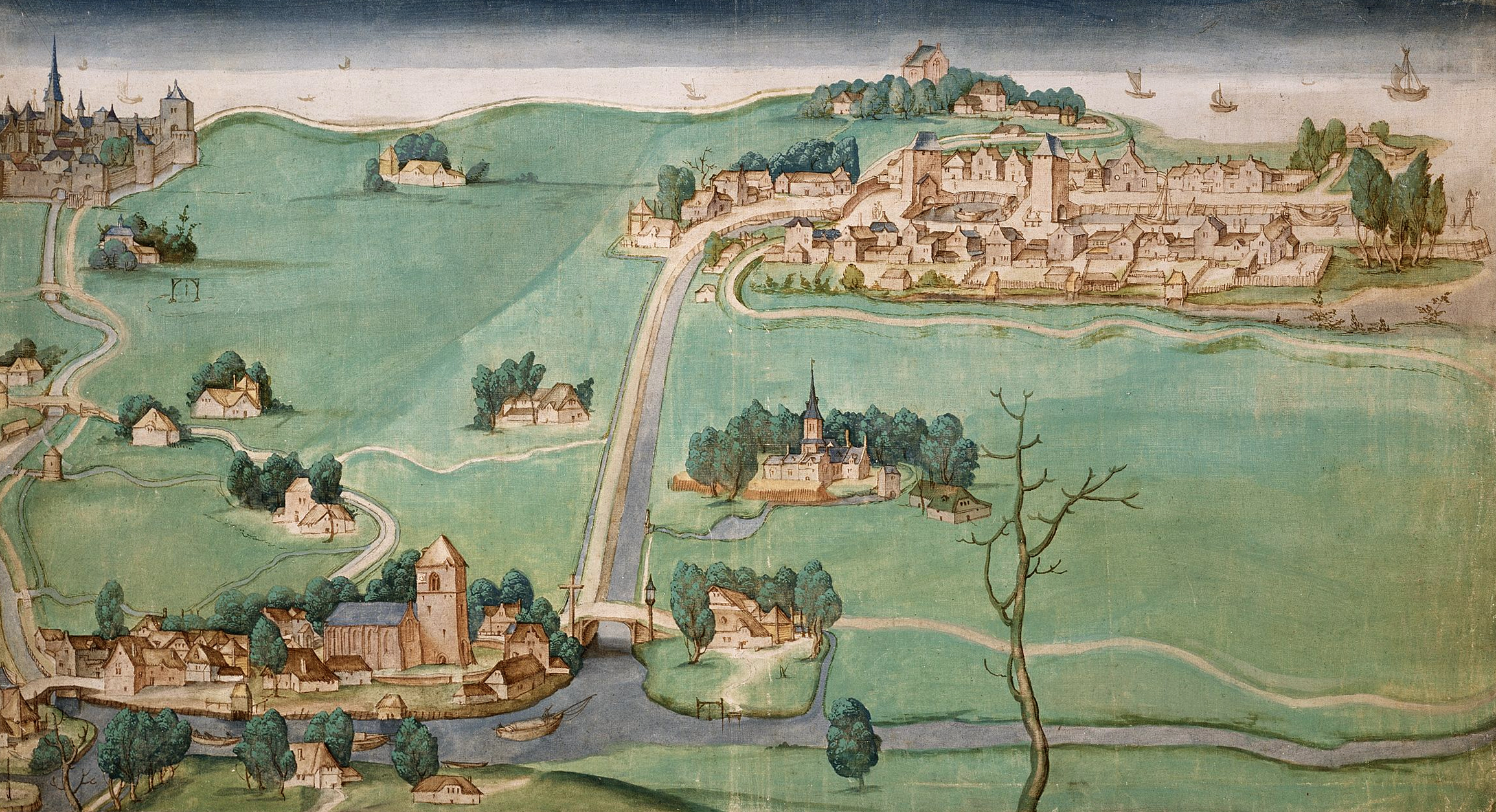 Map of Delfshaven, Overschie and Schiebroek at the Rotterdamsche- and Delftse Schie. (1512)[2]